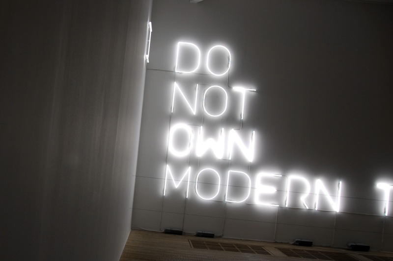 Pierre Huyghe